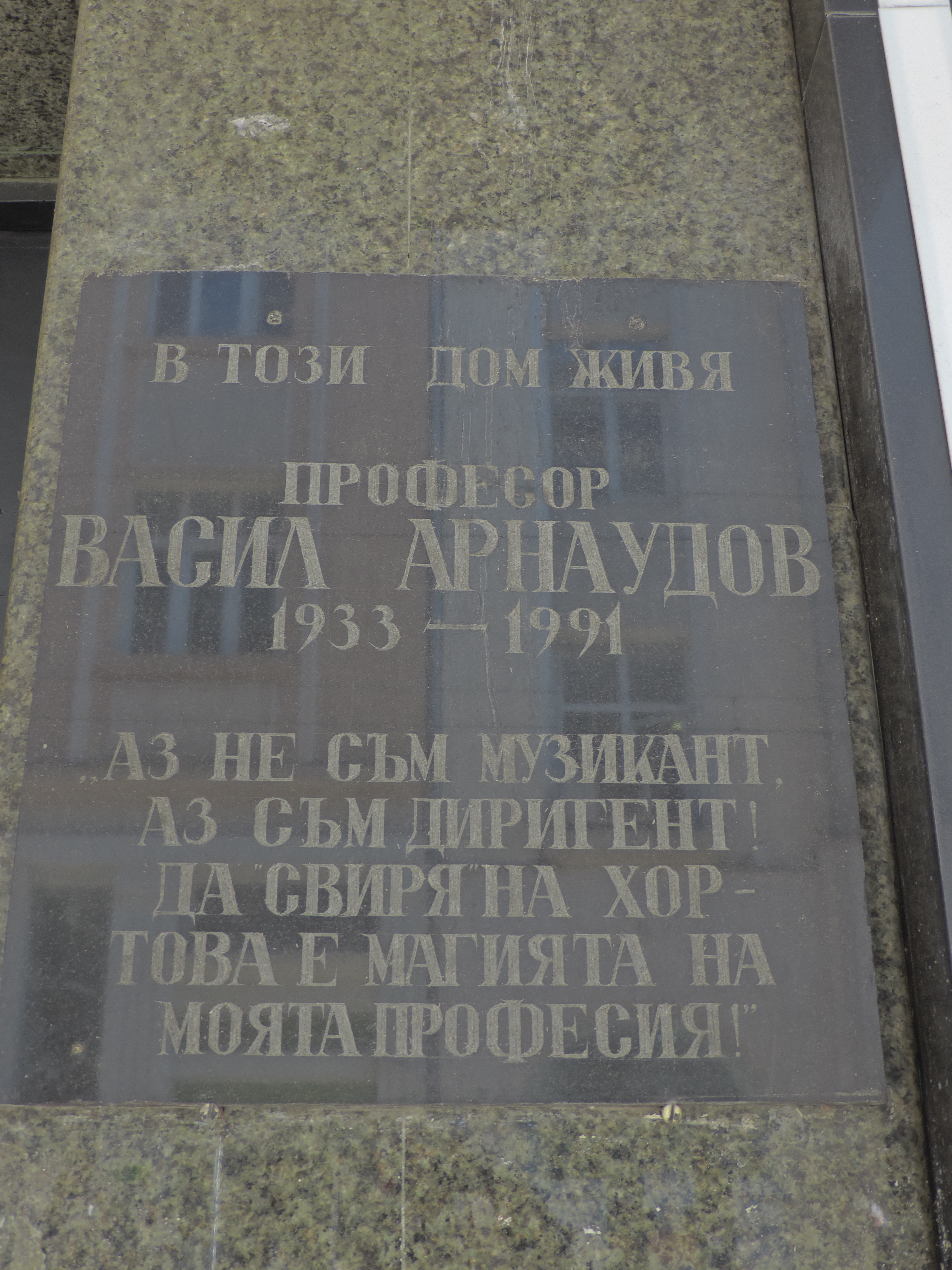 The memorial plaque on the home of the Bulgarian choir conductor Vasil Arnaudov. The building is located on 11 "Graf Ignatiev" Str., Sofia, Bulgaria.